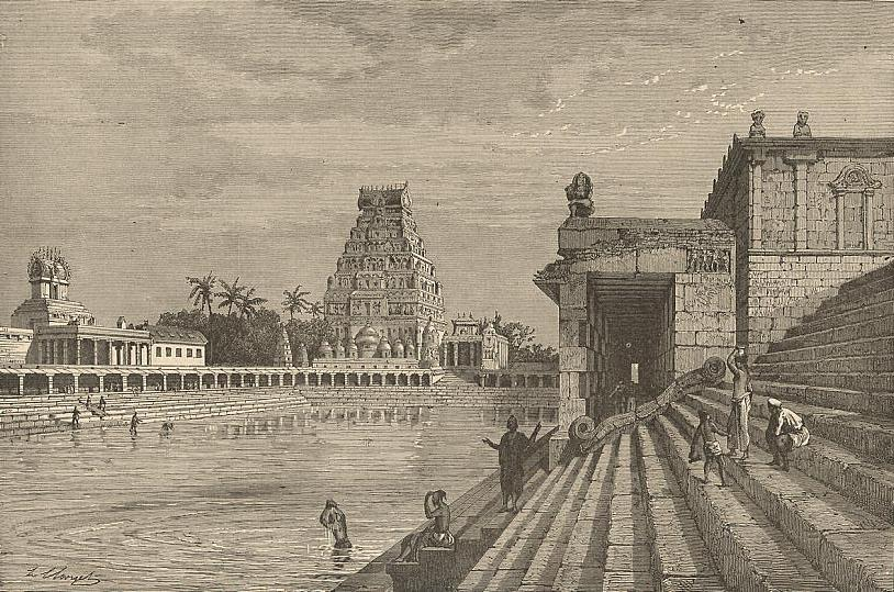 "Sacred Tank and Pagoda at Chillambaran [Chidambaram], India", a wood engraving from the 1870's